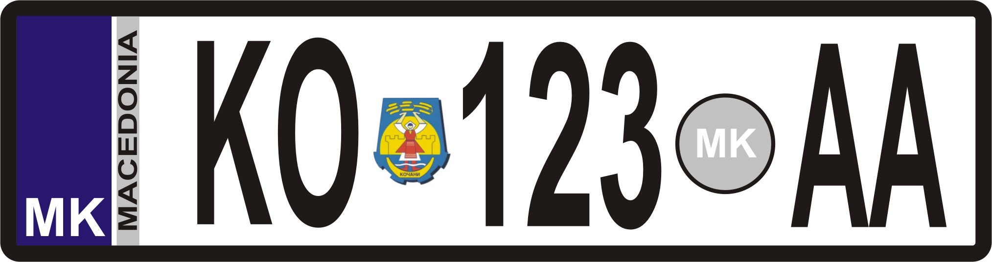 New proposal for Macedonian car plates